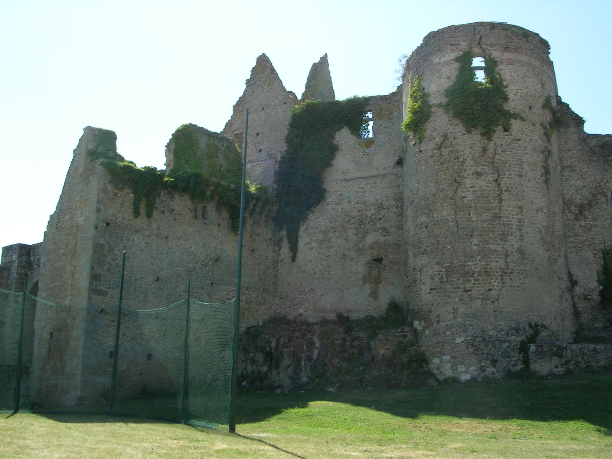 Actual shoot of Bressuire Castle Dunjon